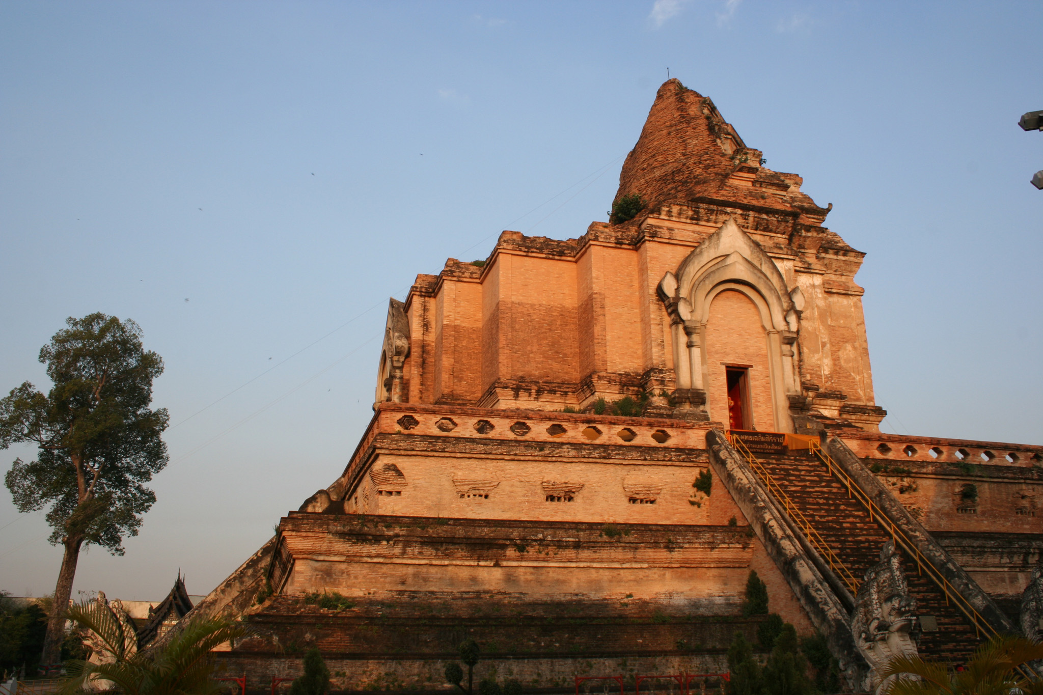 The large Chedi of Wat Chedi Luang in Chiang Mai, Thailand in the early morning.